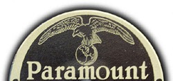 Logo of Paramount Records